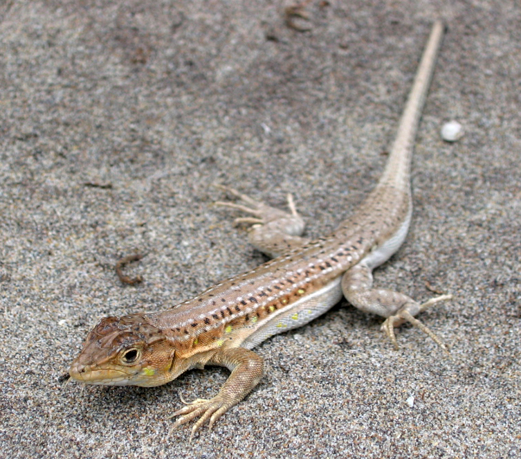 Red tail wall lizard (Acanthodactylus erythrurus) in Cabo de Gata-Níjar Natural Park (Almería, Andalusia).